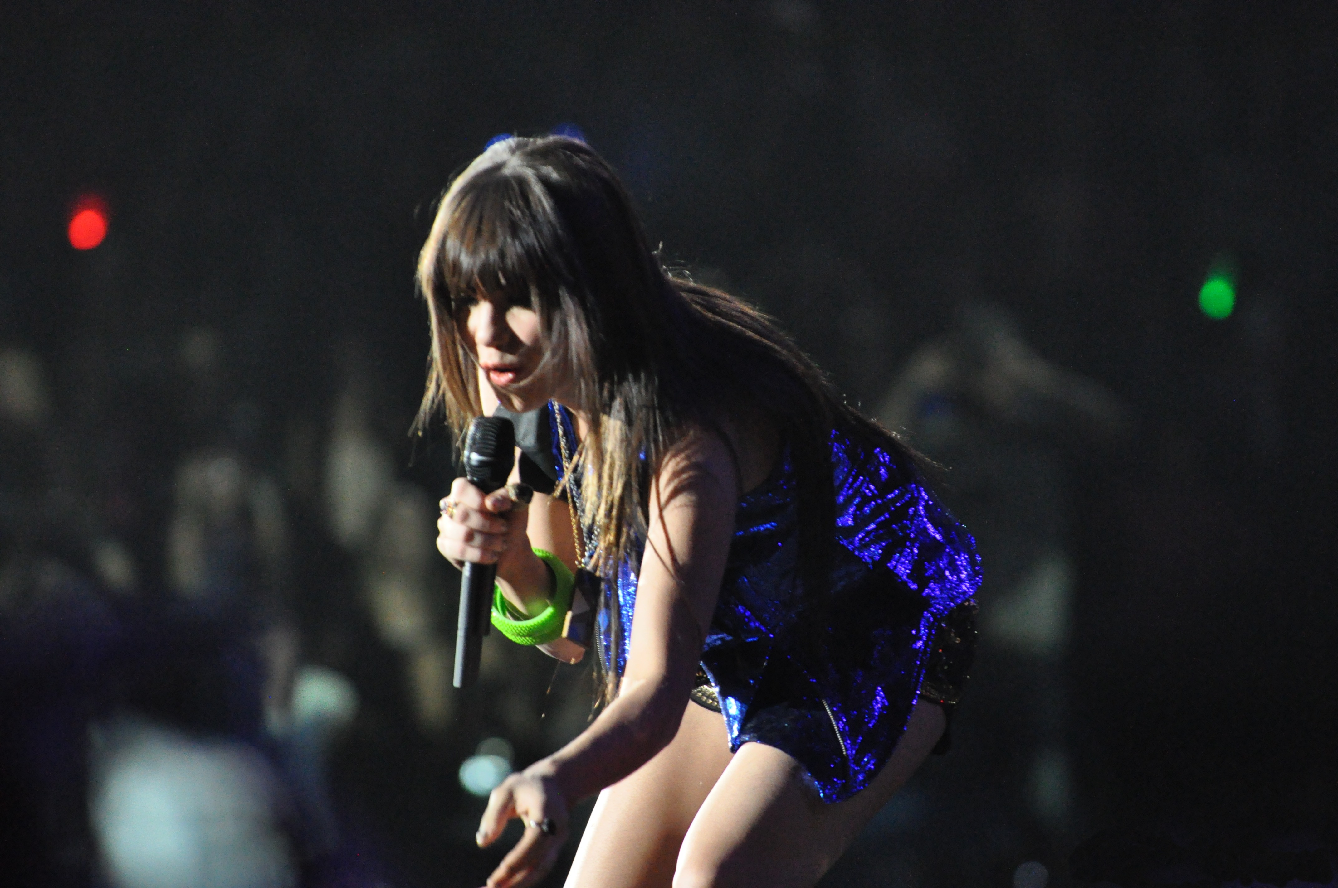 Carly Rae Jepson-DSC_0074-10.20.12